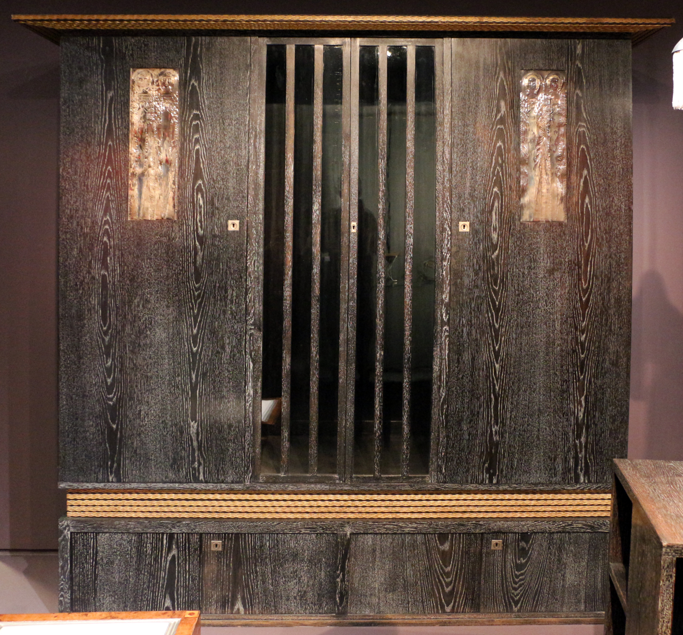 Decorative arts in the Musée d'Orsay